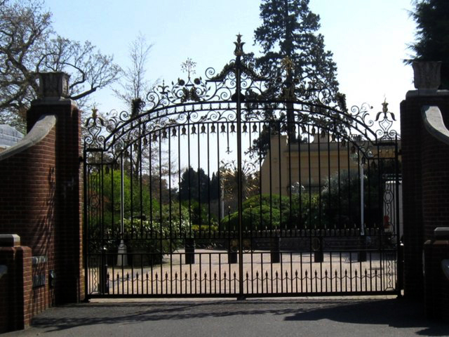 Gates to Tittenhurst Park, Ascot, UK with security bollards beyond. The house originally a Georgian Manor House but now heavily re-modelled. It was John Lennon's home from late summer 1969 to August 1971, "Plastic Ono Band" album partly recorded here.